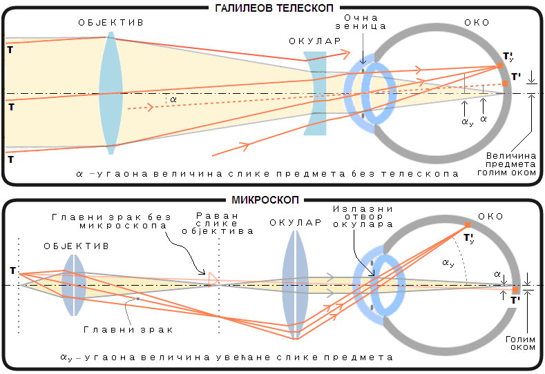 ПРВИ ТЕЛЕСКОП, ОПТИЧКА ШЕМА